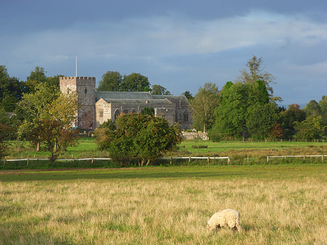 St Andrew's, Greystoke, near to Greystoke, Cumbria, Great Britain. Looking across pastures from the southern end of the village. The church dates from the 13th century.